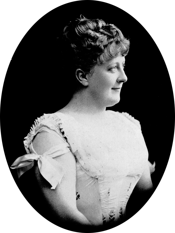 Hedwig Niemann-Raabe